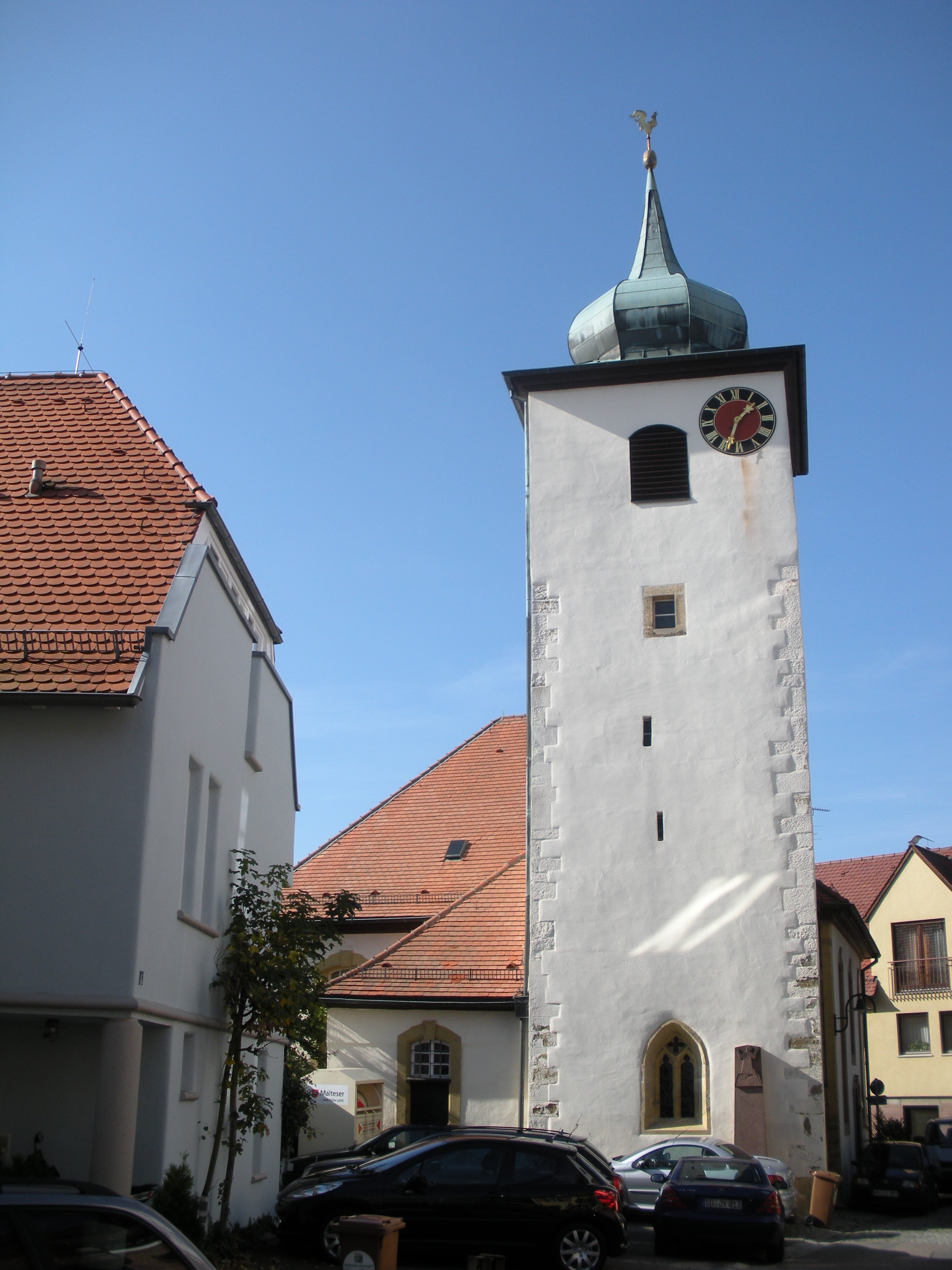 Protestant Church in Stuttgart-Rotenberg